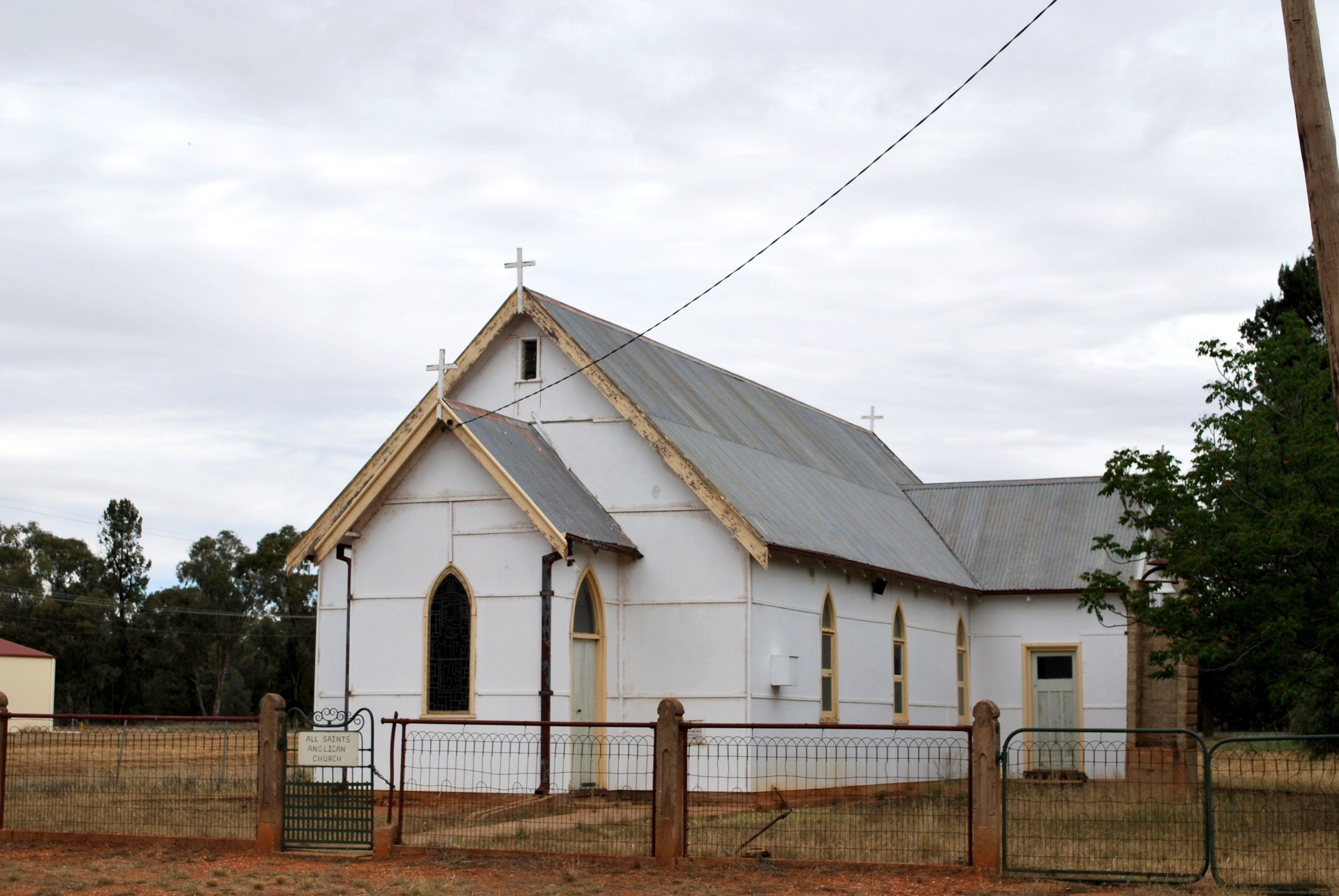 All Saints Anglican church in Albert, New South Wales